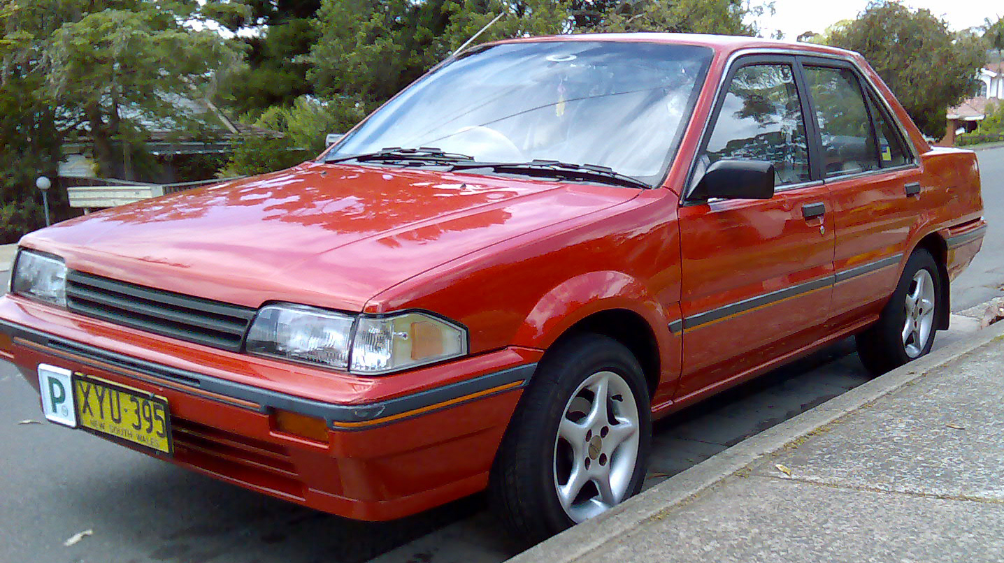 1989 Holden Astra (LD) SLX sedan. Photographed in Gymea Bay, New South Wales, Australia.